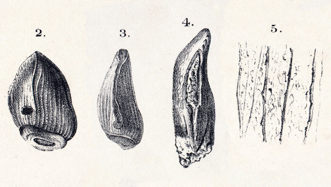 Fig. 2. Side view of crown of tooth of Cardiodon rugulosus. Fig. 3. Fore end of the same tooth. Fig. 4. Hind end of the crown of another tooth of Cardiodon rugulosus. Fig. 5. Magnified view of markings on the surface of the enamel of the same tooth. All the figures are of the natural size. 2-5 are from the Forest Marble of Bradford, Wilts. In the Collection of Channing Pearce, Esq., of that town.